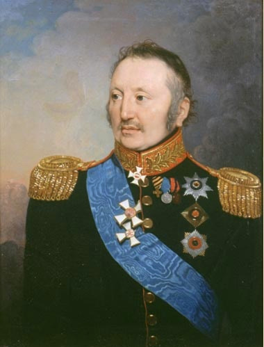 Russian field-marshal P.Ch. Wittgenstein by unknown artist of 1-st half XIX c.